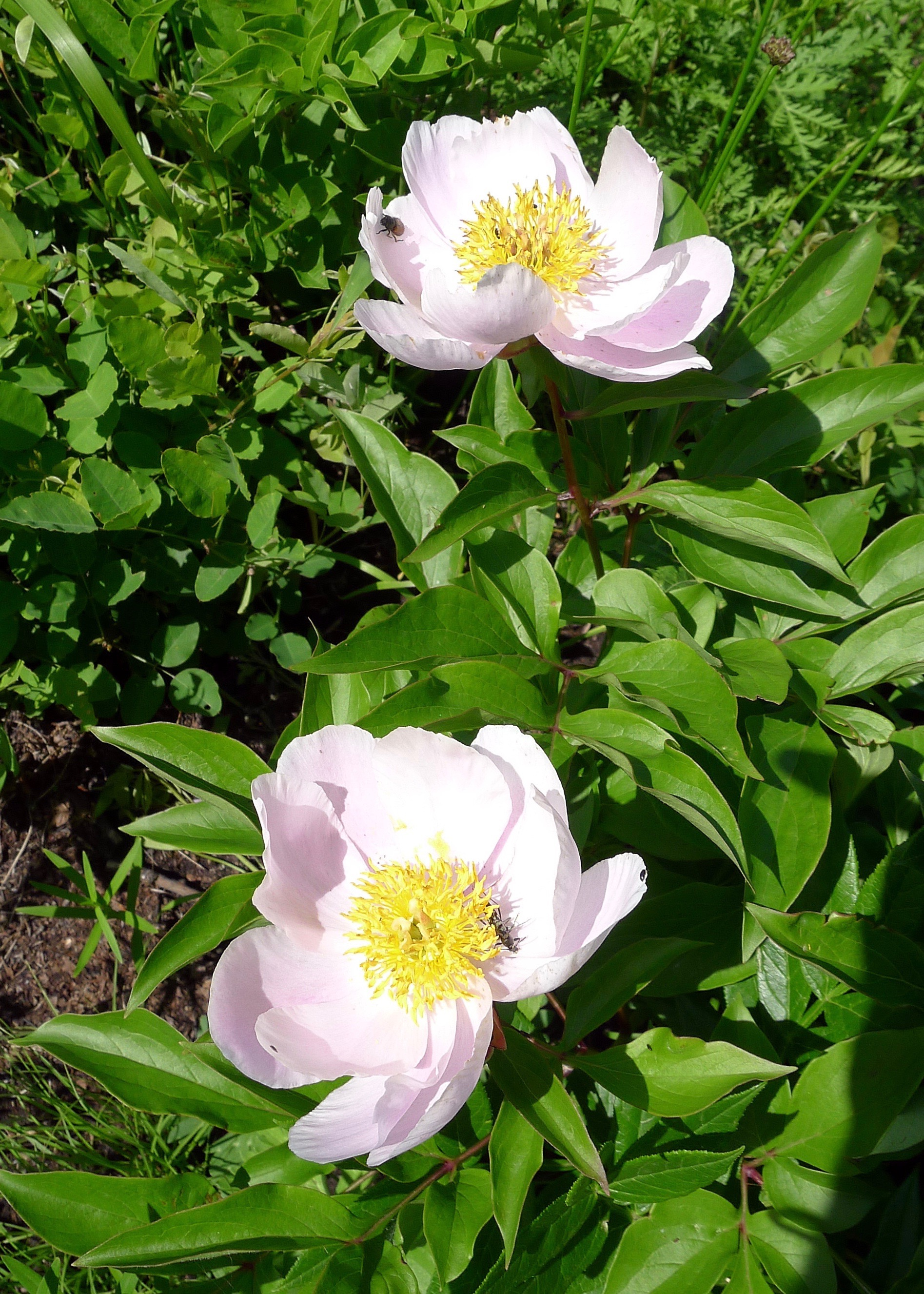 IVO Partizansk town, Primorsky Krai, the Russian Far East.